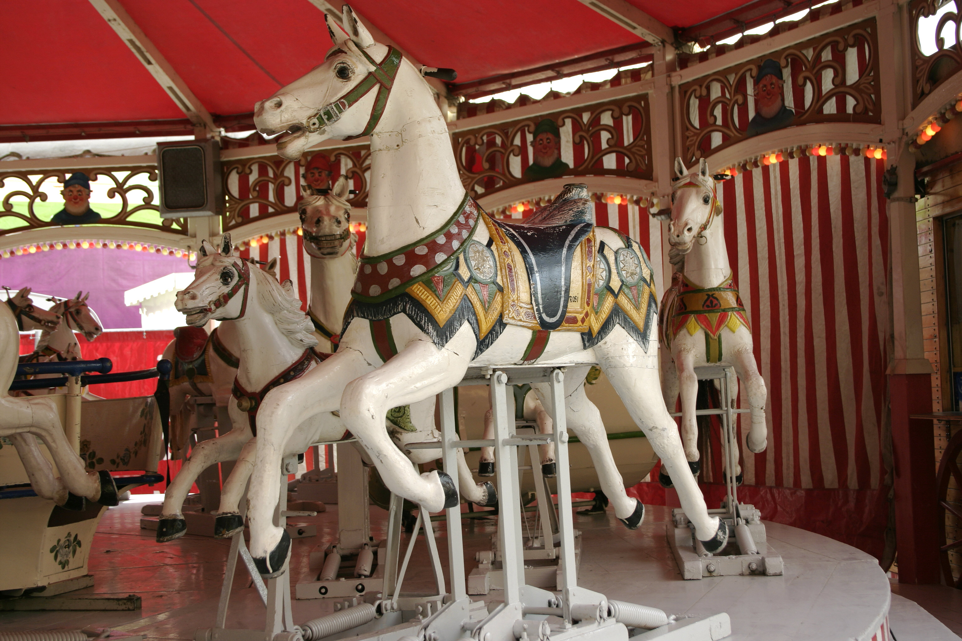 Carousel horse